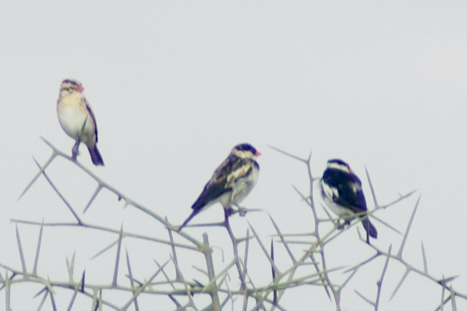 A female and two male Pin-tailed Whydahs Vidua macroura, moulting into breeding plumage. Amboseli National Park, Kenya. The time stamp is 10 hours too early.